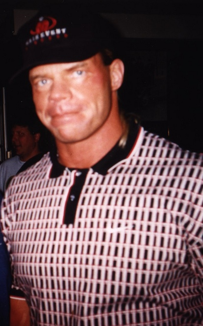 Lex Luger after a taping of WCW Monday Nitro from Minneapolis, Minnesota in 1998.